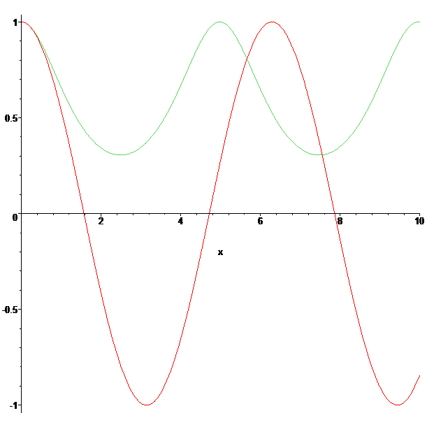 Jacobi Elliptic Funcitons cnk(u) Red line k = 0.05 Green line k = 1.05